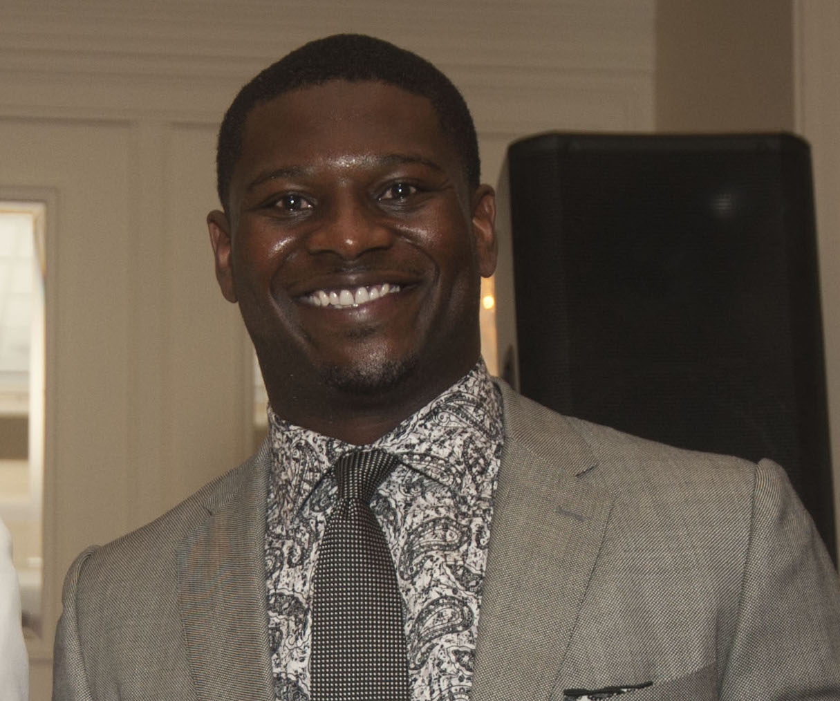 LaDainian Tomlinson being presented an award in 2017.